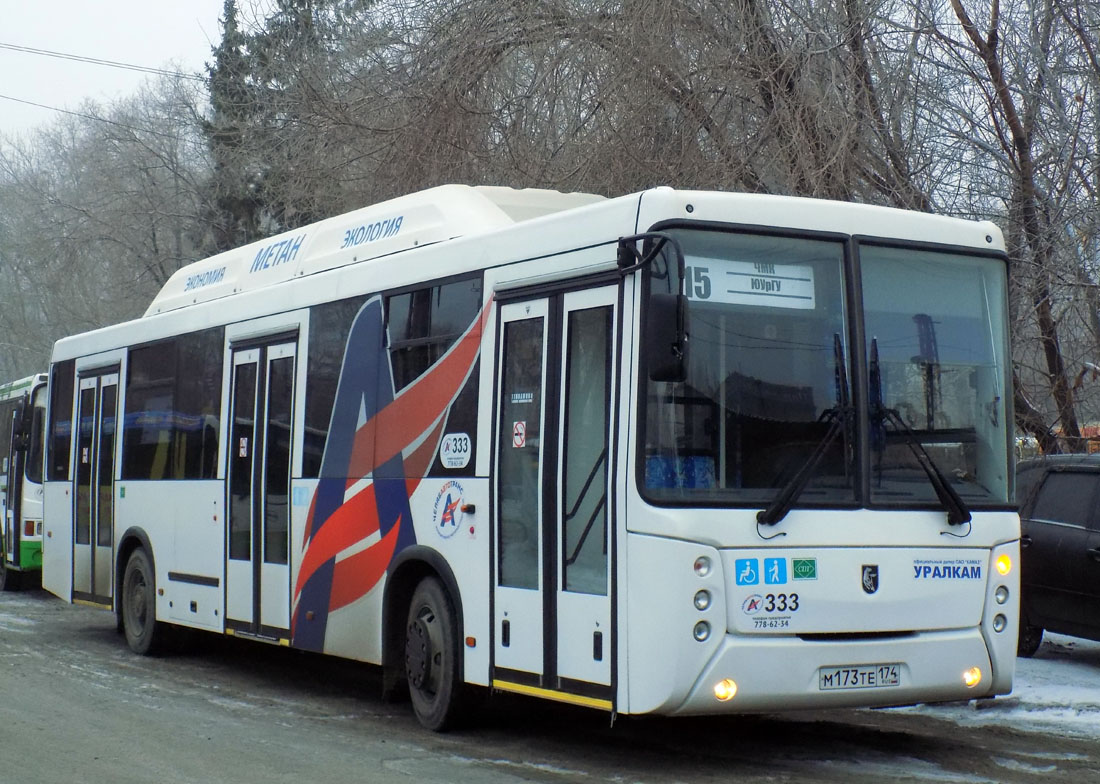 NefAZ 5299 CNG bus in Chelyabinsk, Russia